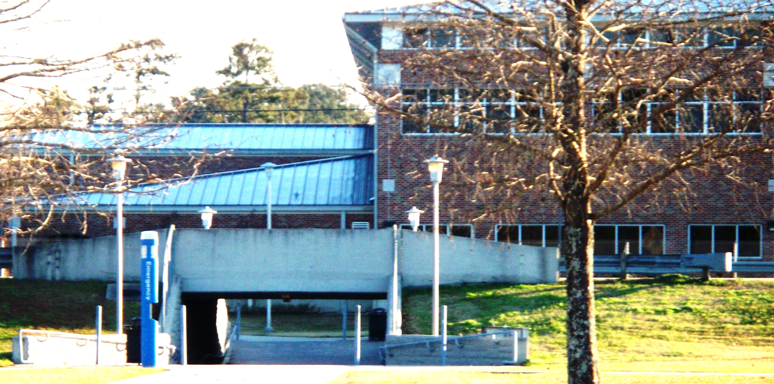 Foreground: Pedestrian underpass beneath LA 3234 (University Avenue) on the Southeastern Louisiana University campus. Background: Part of the multimillion-dollar Pennington Student Activity Center, a full-service health and exercise club for students.